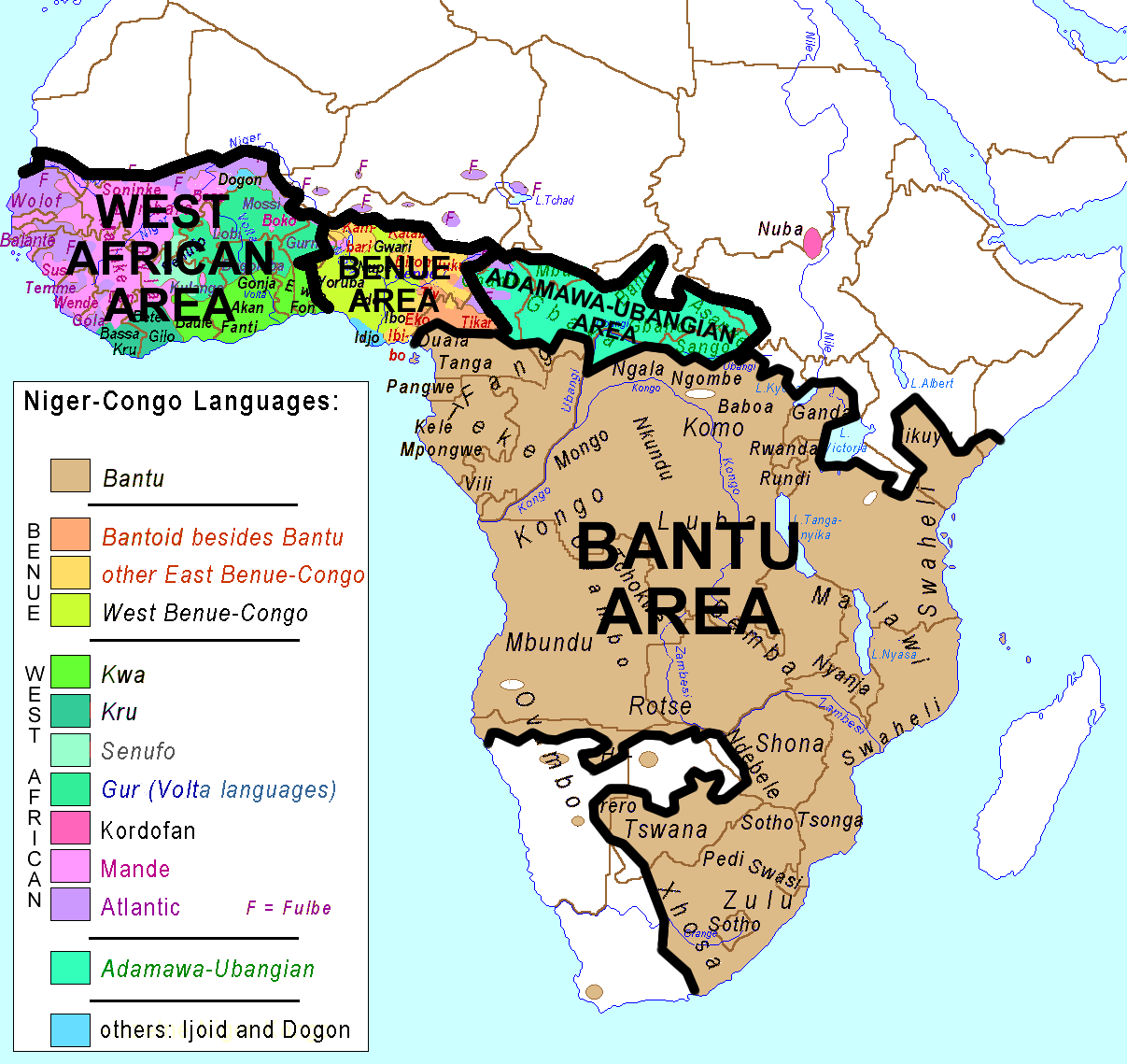 vectorisation de Image:Niger-Congo.png Vectorization of Image:Niger-Congo.png, which is CC-by: Map showing the localization of Niger Congo subgroups and important single languages of that family.